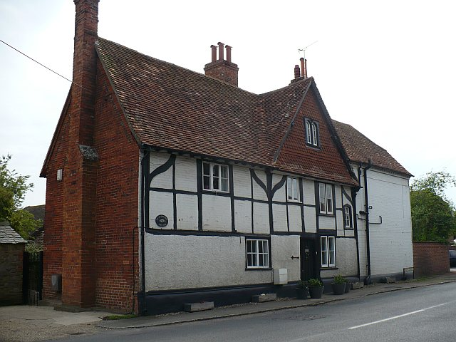 The Old Farmhouse, 44 High Street, Drayton, Vale of White Horse